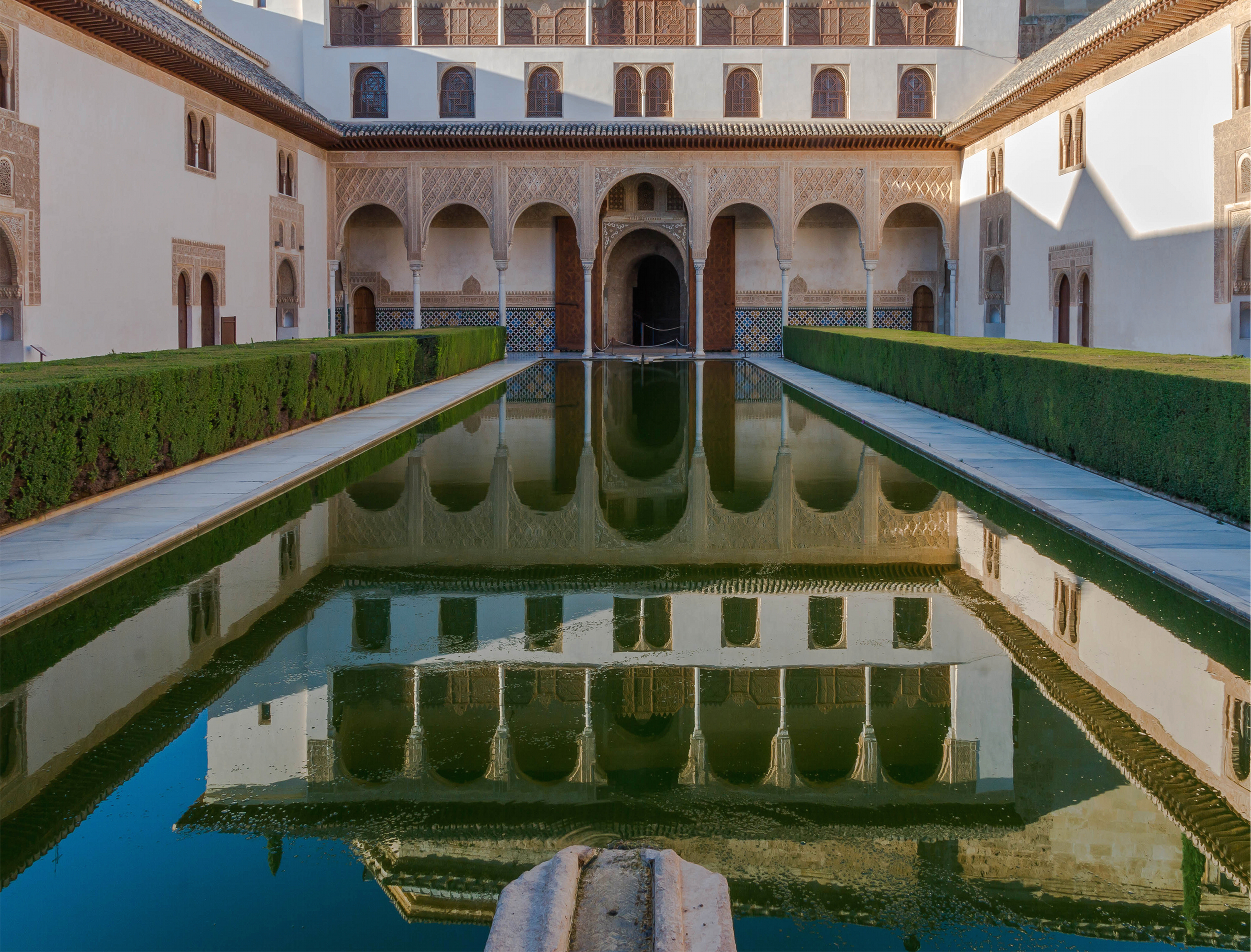 Patio de los Arrayanes (Myrtle Courtyard), Alhambra, Granada, Spain.